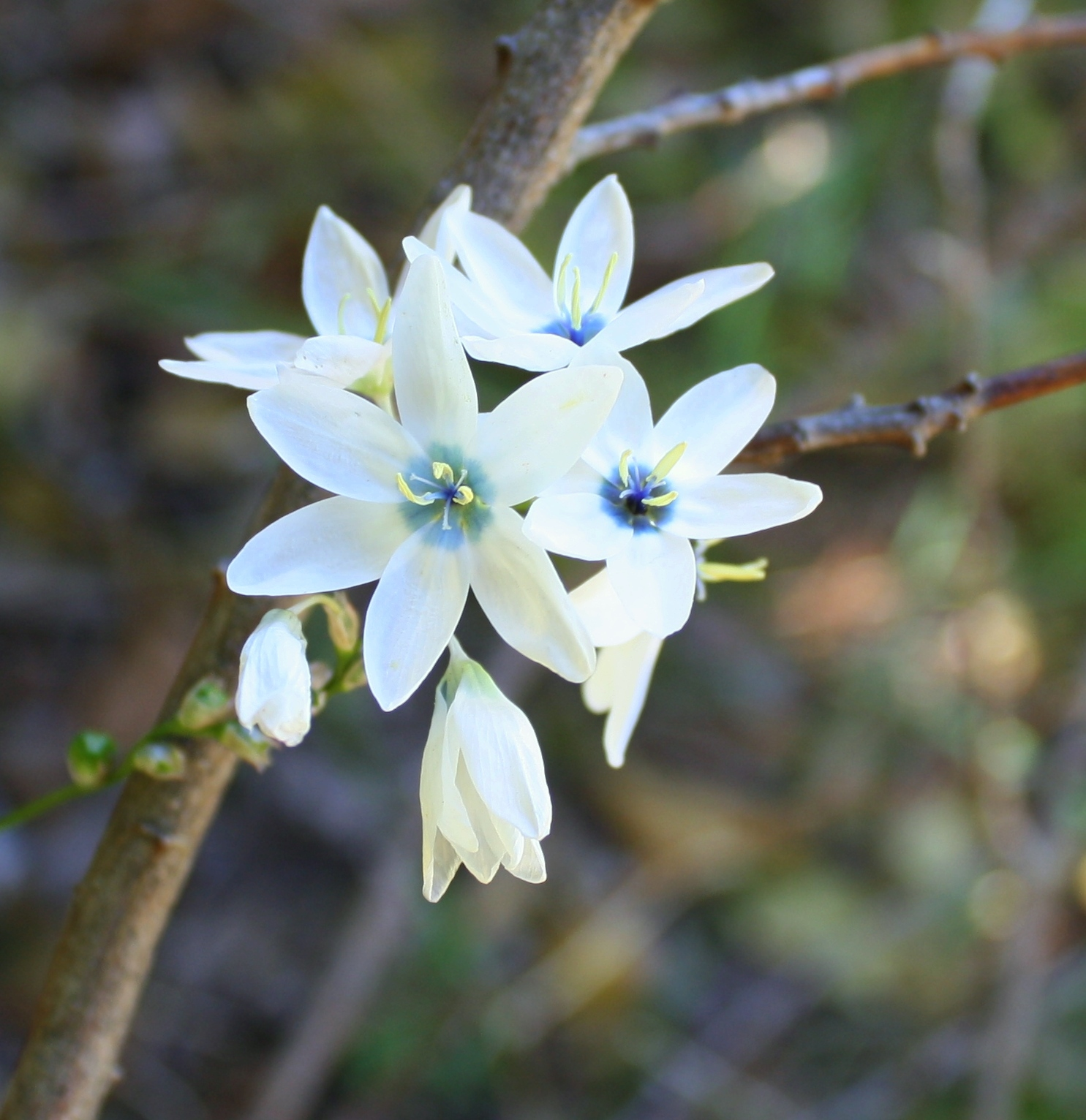 Newlands Cape Town Dec 13